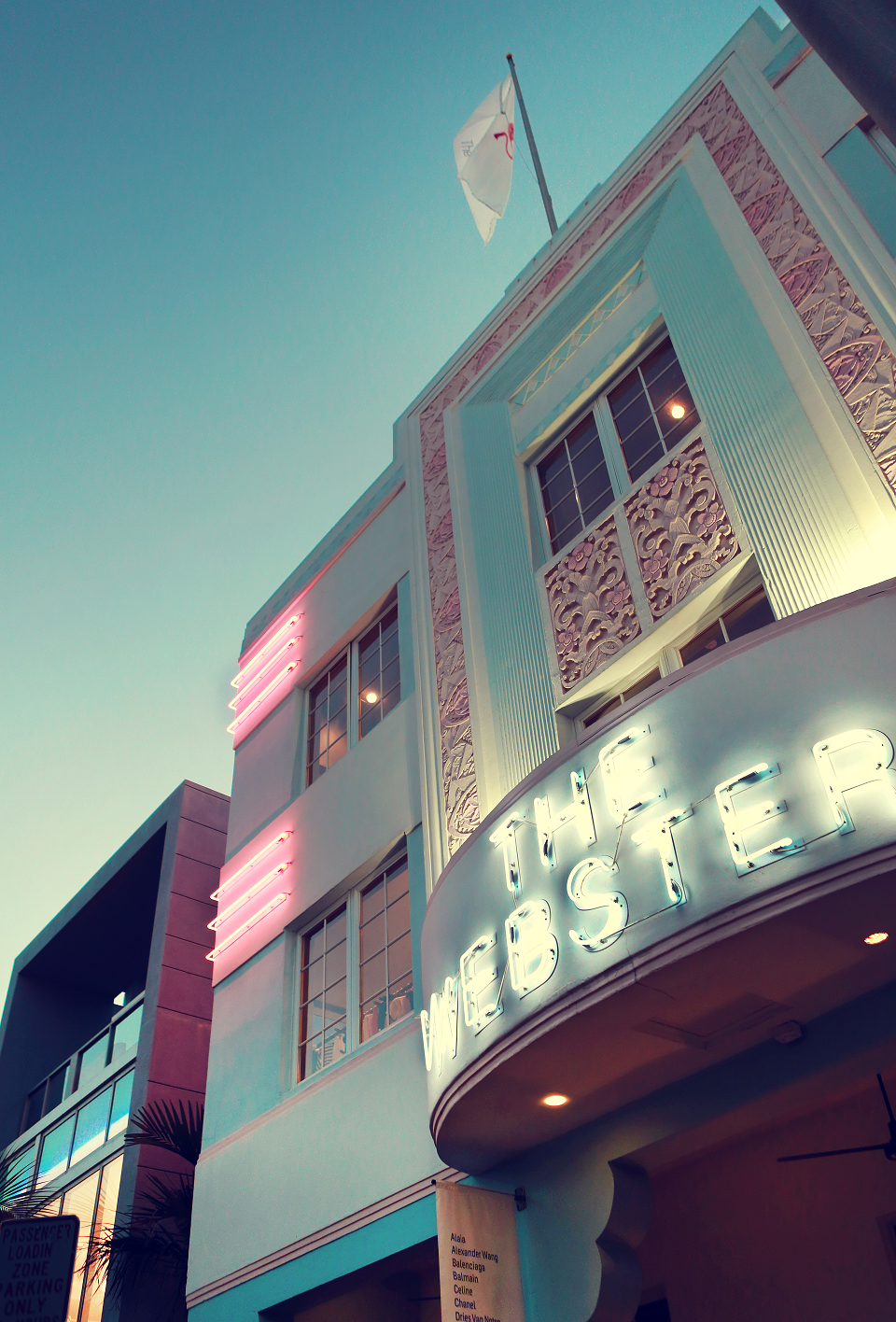 TheWebster Miami storefront Neon